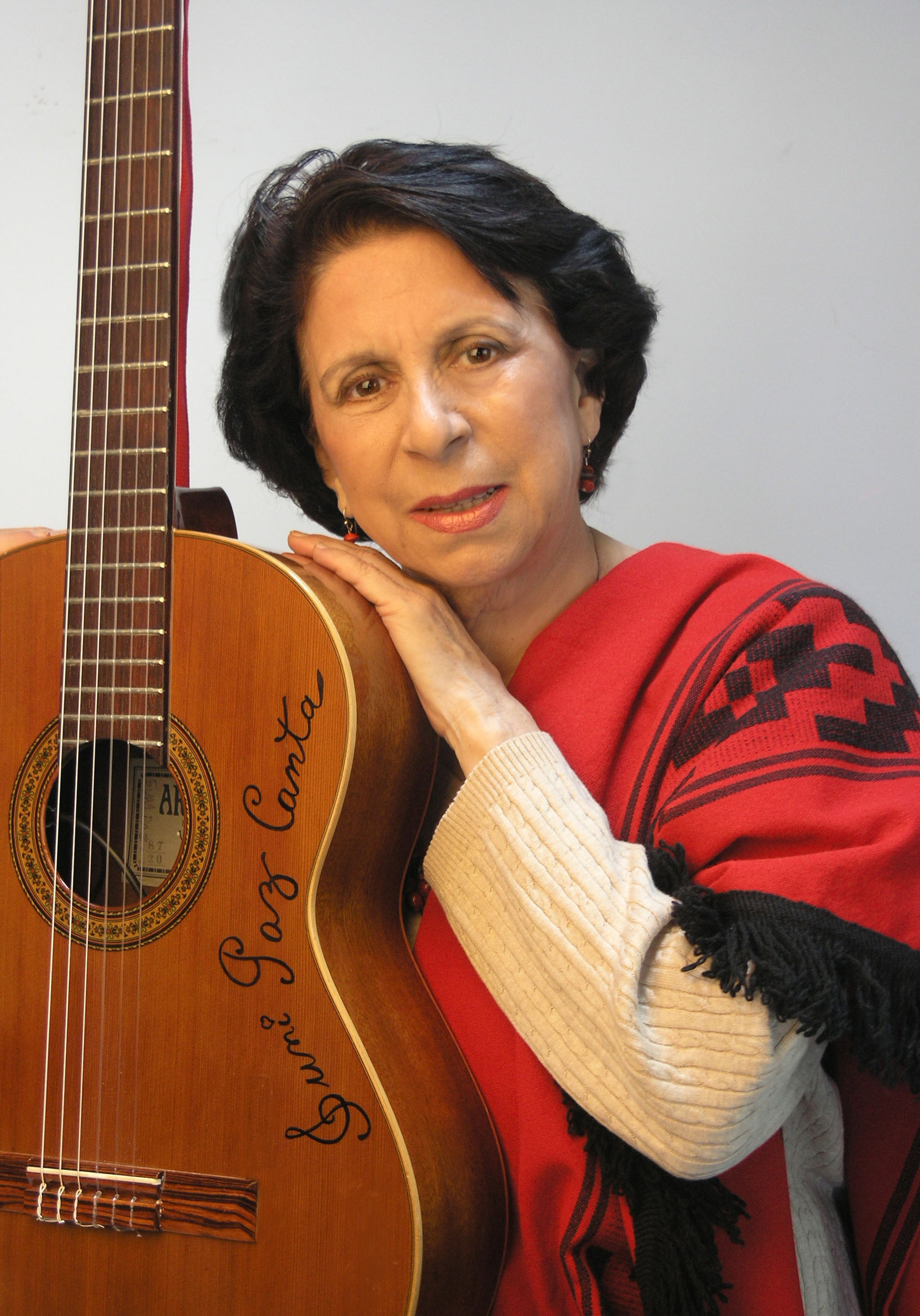 Suni Paz was one of the first artists to bring the nueva canción tradition—the “new song” music of the 1960s and 1970s—to North American audiences. For more than half of a century, her work as an American songwriter and performer of Latin American folk music has resonated as a cultural force, engaging people of all backgrounds and ages. “Suni Paz", means “everlasting peace” in the Quechua language of the Andes. She has performed at folk music concerts both nationally and internationally. In 1973, she recorded her first album, Brotando Del Silencio/Breaking Out of the Silence, on Paredón Records, accompanied by her son, Ramiro Fauve. Twenty-two albums followed, including 11 on Smithsonian Folkways. A 1985 project to create a Spanish-language reading curriculum led to decades of collaboration with renowned authors Alma Flor Ada and Francisca Isabel Campoy (Del Sol Books). “Suni’s gifted voice and exquisite performance reaches all, from young children to adults,” wrote Ada. “Her life has been a determined commitment to support the development of a positive identity in all Latino youth.” Paz has received many honors, including the CMN Magic Penny Award, the National Culture Through the Arts Award from NY State Assoc. of Foreign Language Teachers, the Nat. Fed. of Local Cable TV Prog. Award, and successive ASCAP Plus Awards. In 2017, Paz’s autobiography, Destellos was recognized with the International Latino Book Awards.